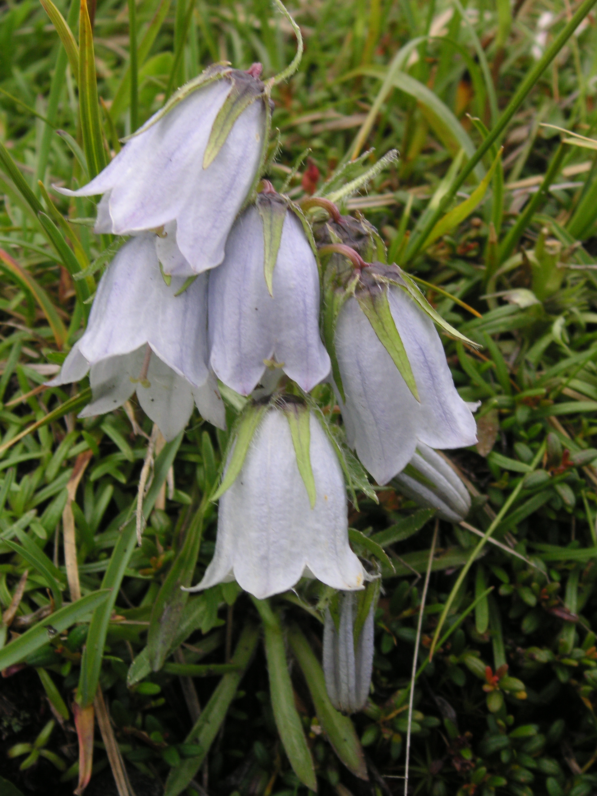 Campanula alpina